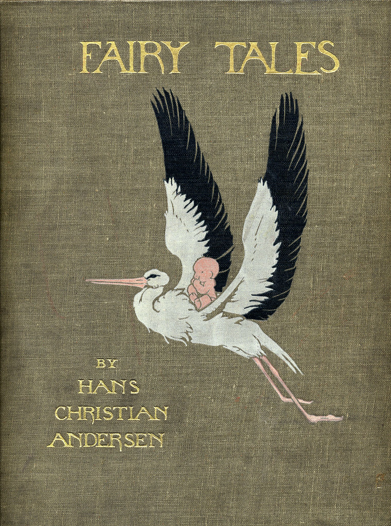 Fairy Tales by Hans Christian Andersen, 1926 Illustrated by Honor C. Appleton.